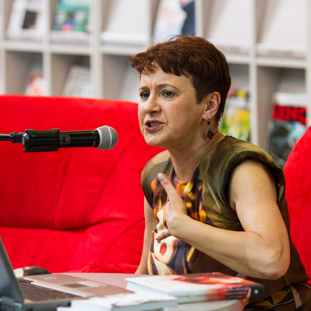 Oksana Zabuzhko on Authors’ Reading Month 2015, Wrocław, Poland